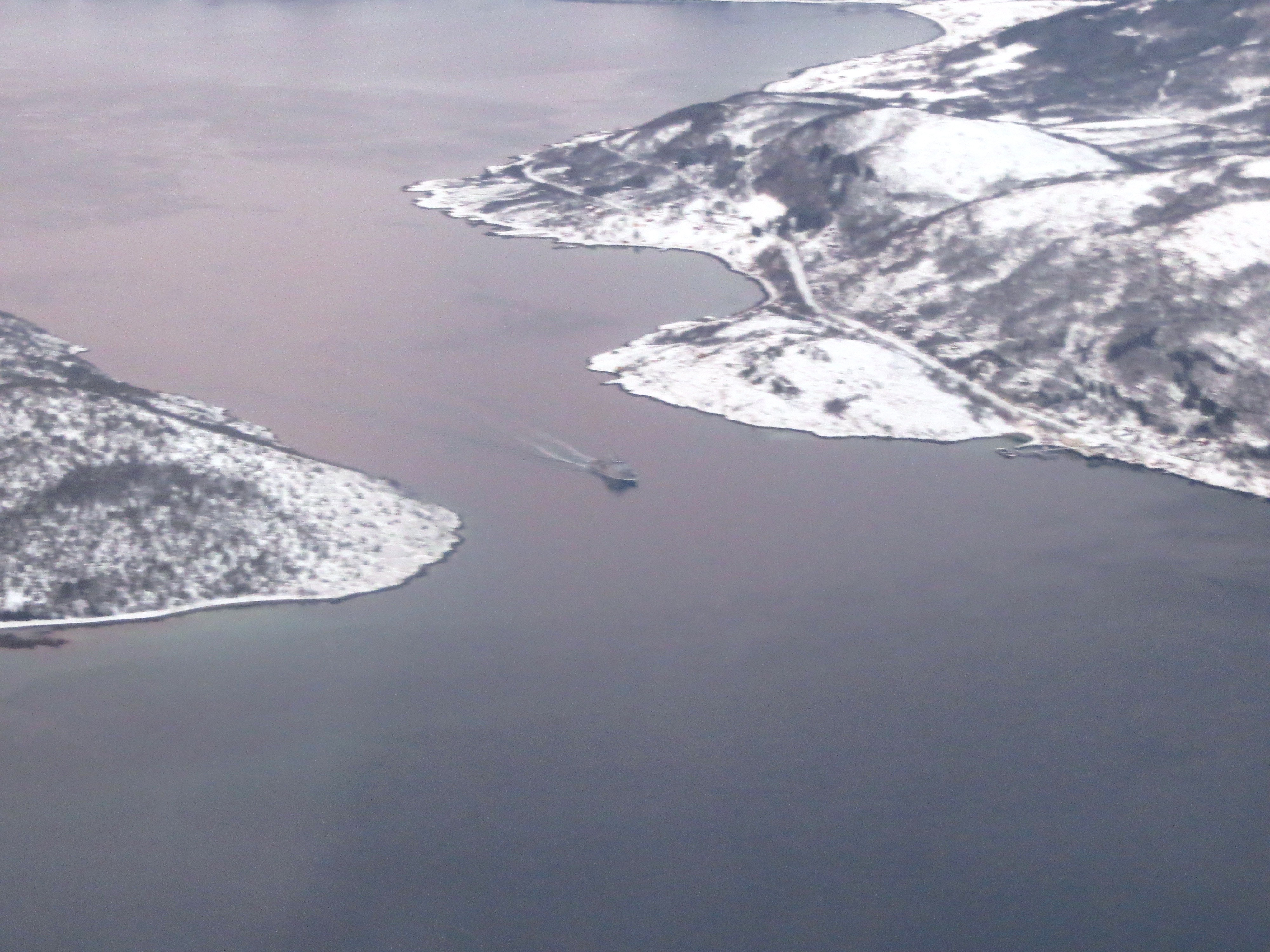 Aerial view of the fjord Straumsfjorden in the municipality of Balsfjord, south of Tromsø, in Troms county (Norway). Between the island Ryøya (left) and the island Kvaløy to the right, a Coast Guard ship is passing through the Storstraumen branch of the fjord.